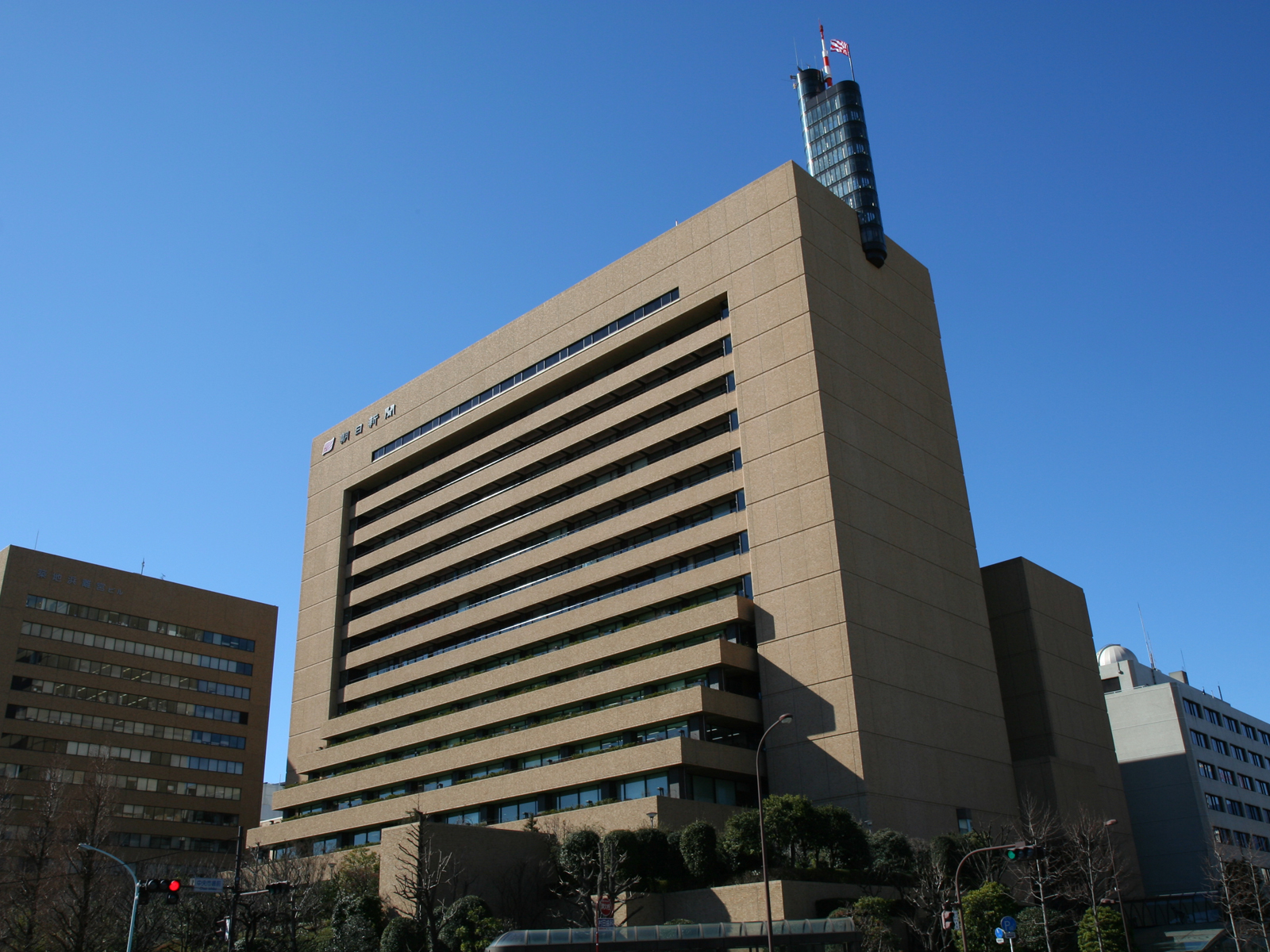 Japanese Asahi Shimbun Tokyo head office in Chuo, Tokyo.